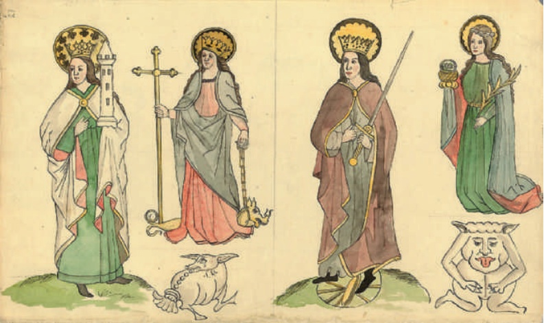 Reproduktion KB. — Saints Barbara, Margaret, Catherine, and Dorothy, Virgines capitales medieval murals in Lofta kyrka copied by C.S. Graffman, 1827.